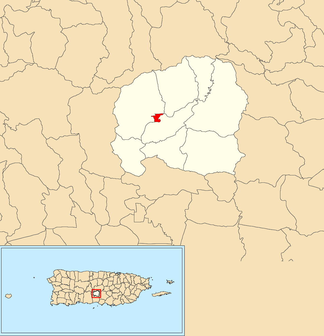 Villalba barrio-pueblo, Villalba, Puerto Rico locator map